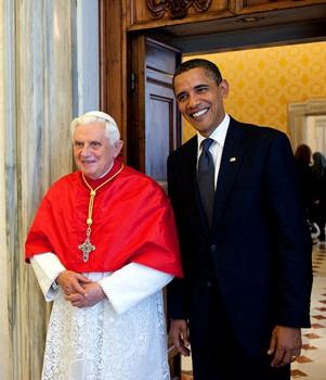 The President of the United States Barack Obama and Pope Benedict XVI at the Vatican (Holy See) on July 10, 2009.